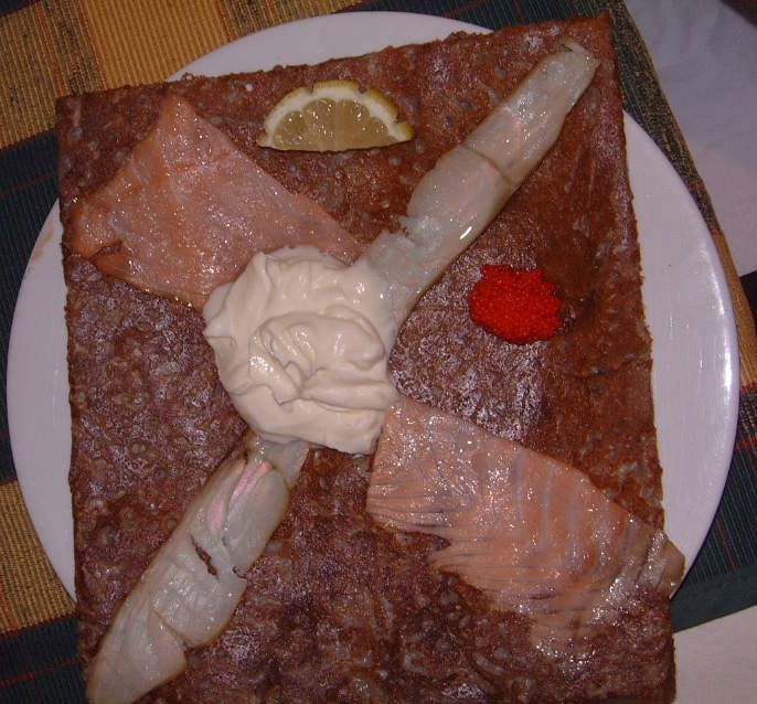 Galette with smoked fish